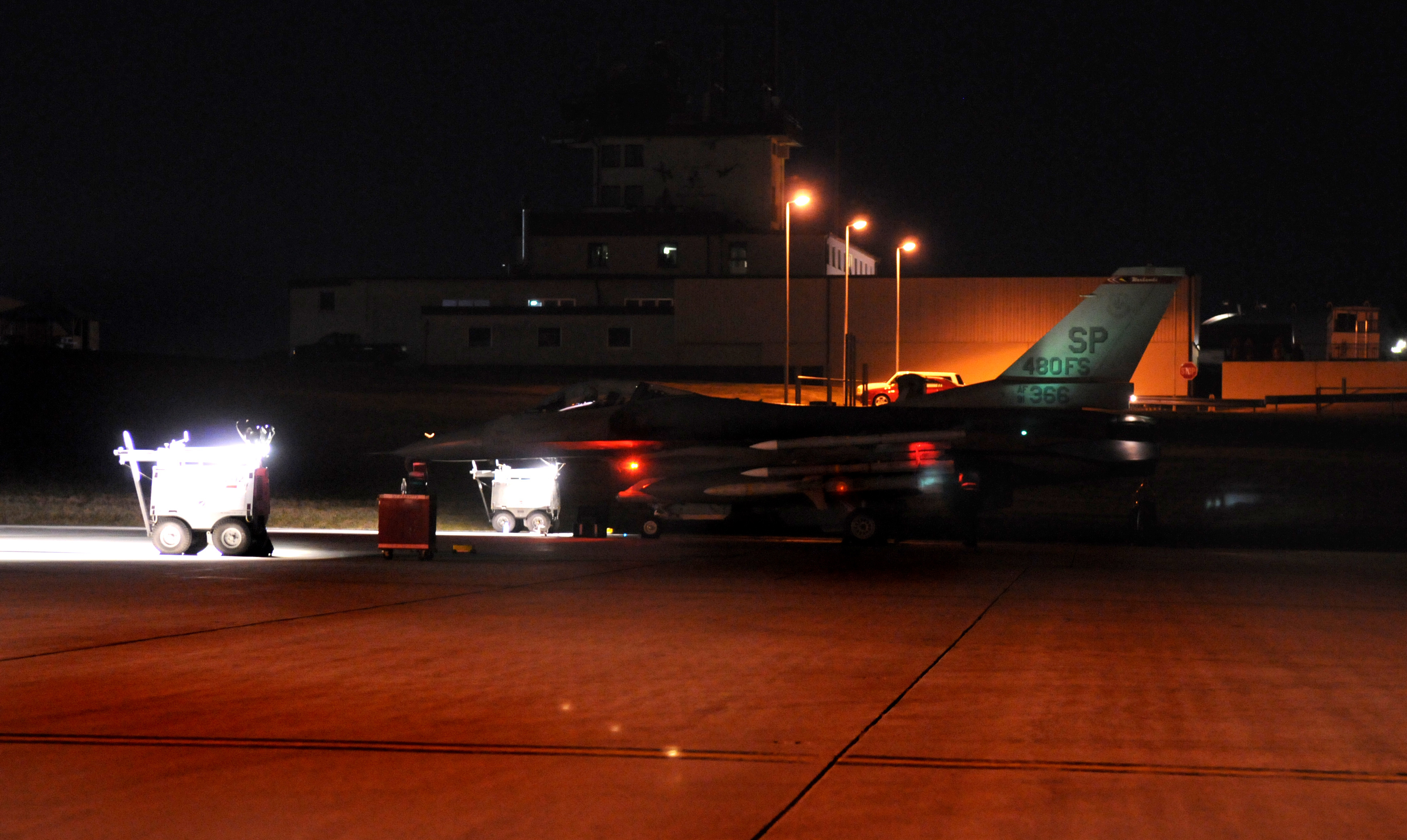 A U.S. Air Force F-16 Fighting Falcon fighter aircraft from the 480th Fighter Squadron prepares for take-off from Spangdahlem Air Base, Germany, March 19, 2011, in support of Joint Task Force (JTF) Odyssey Dawn.